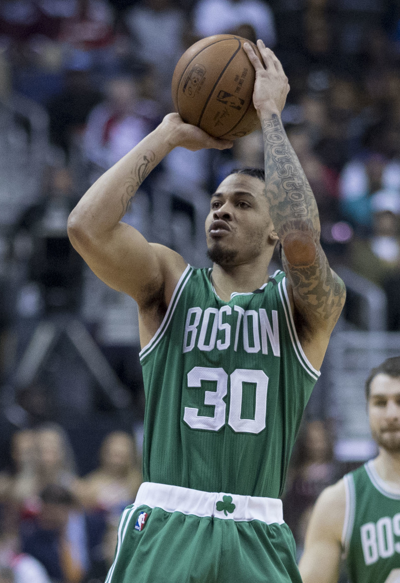 Celtics at Wizards 5/4/17